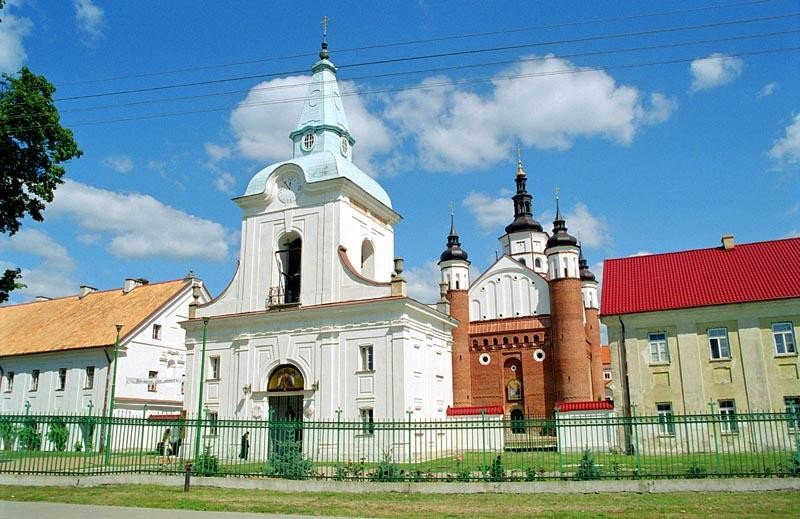 Buildings of Orthodox monastery in Supraśl, Poland from with the permission of the author. Photo from 2003.